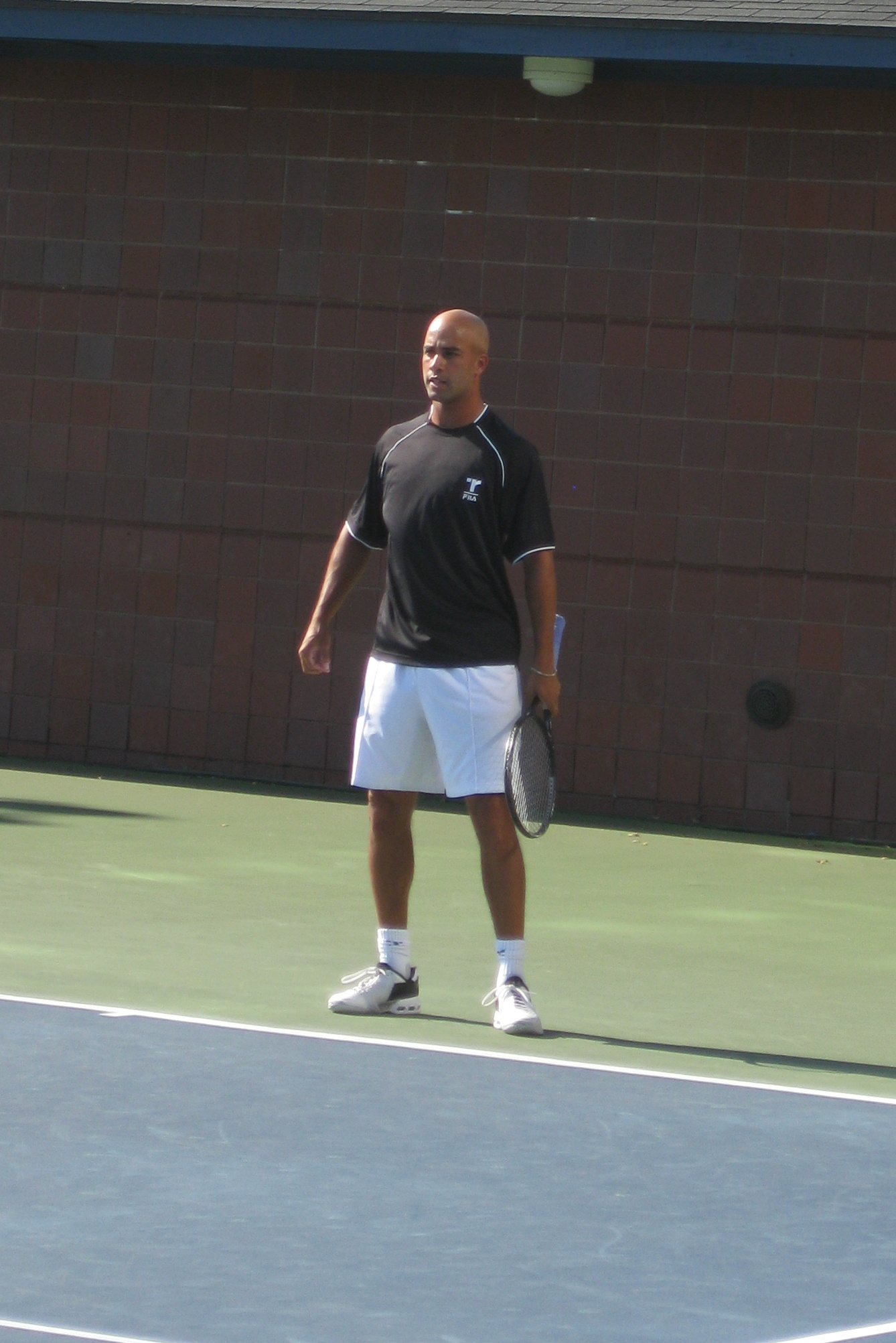 James Blake practicing at US Open 2010.